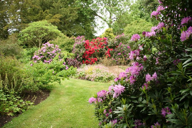 The wild garden: Rhododendron flowering in the Wild Garden at Doddington Hall.